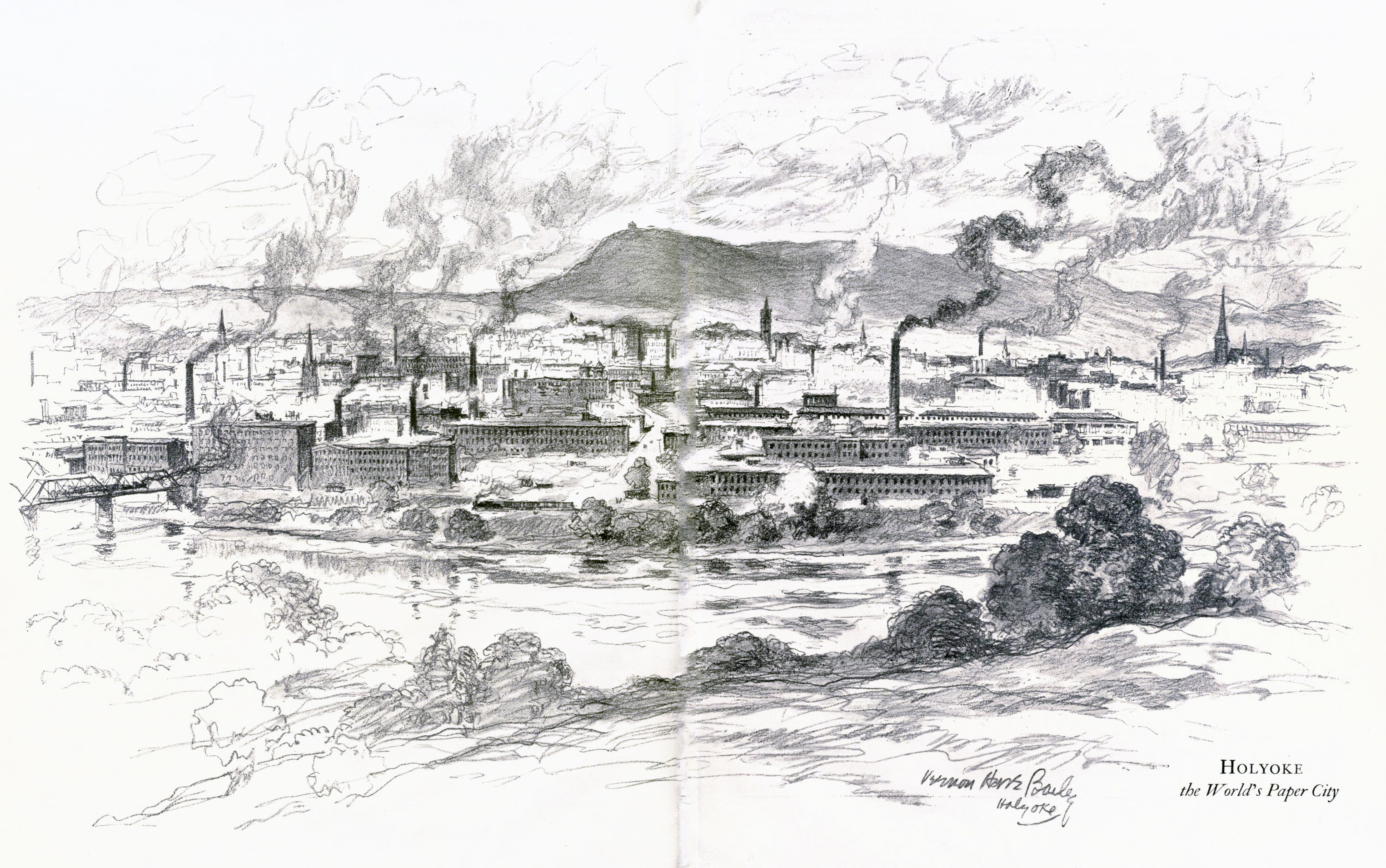 A pencil sketch of the Holyoke skyline soon after its peak as an industrial city, with the Connecticut River in the foreground and Mount Tom in the center of the background.